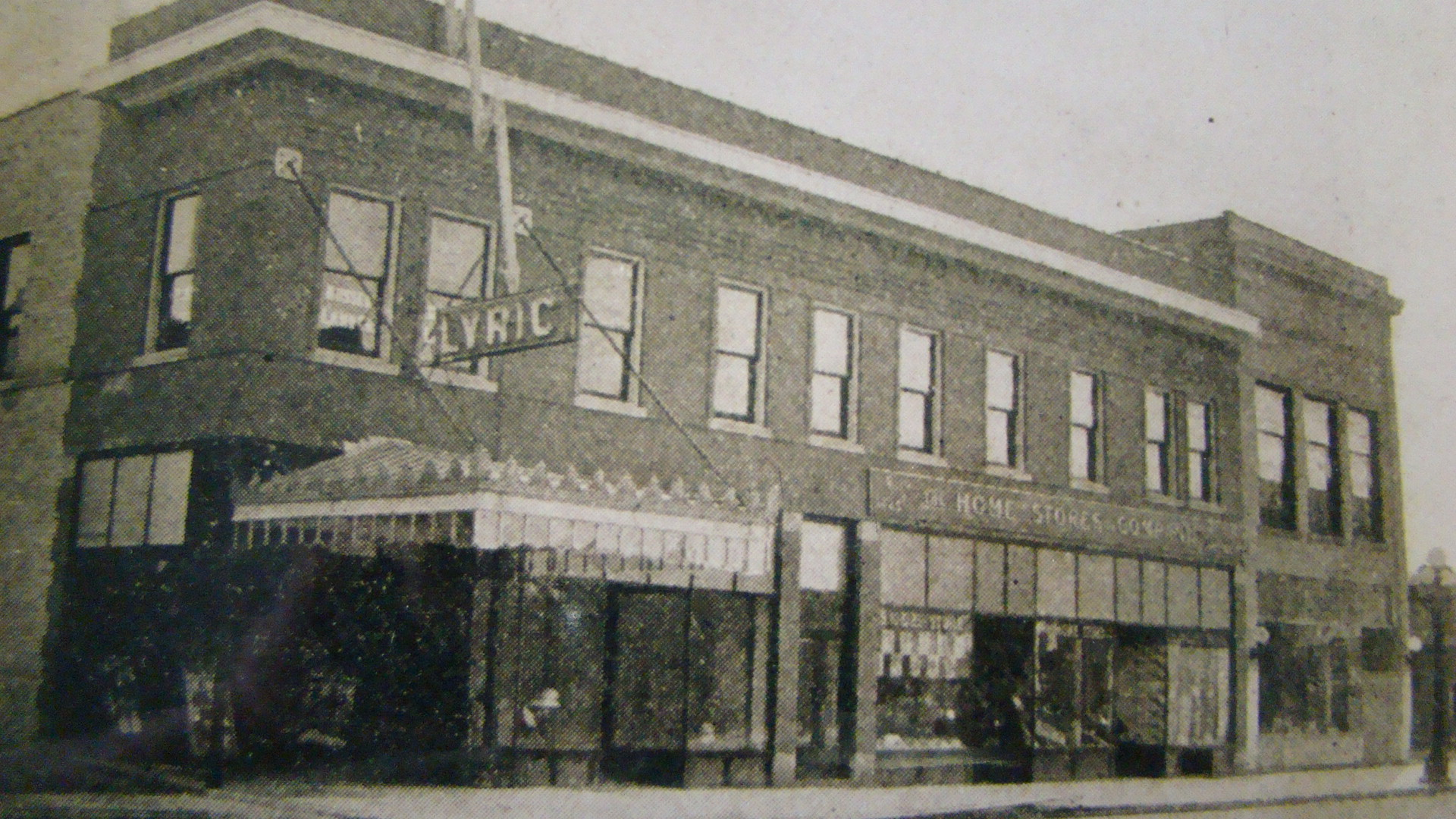 A photograph of the Lyric Theatre, in Virginia, MN. It was later renamed the State Theatre, and is now the Lyric Center for the Arts.